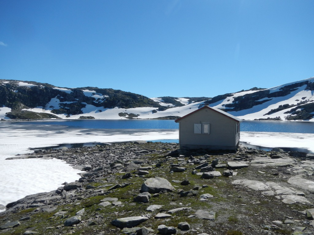 Kvanntjørnsbu, Kvanntjørn, Odda, Hardangervidda, Norway